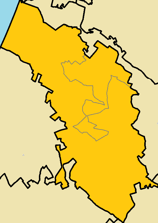 Prastio Lefkosias with quarters (de jure).